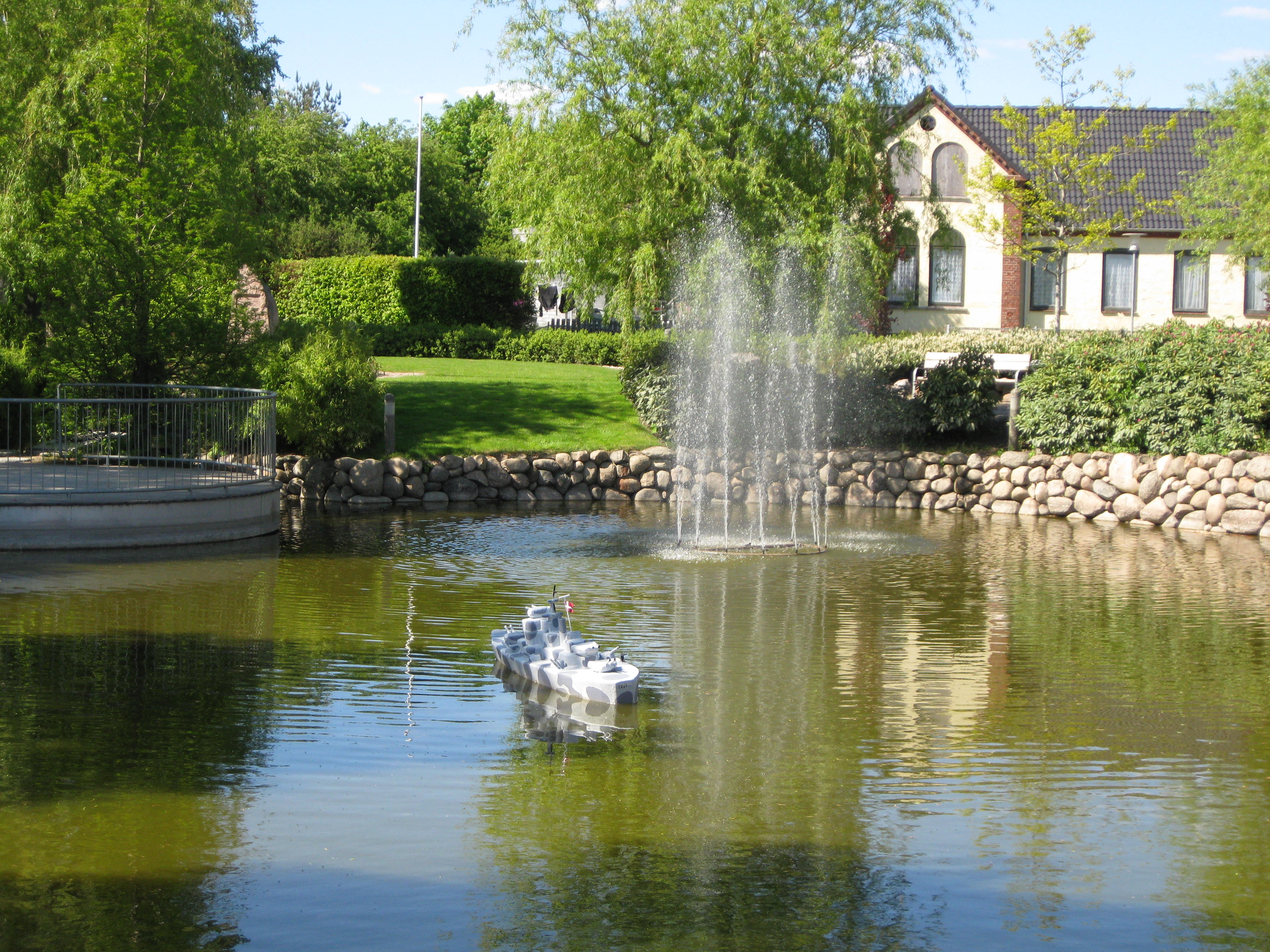 The village pond "Vorbasse Krigshavn" in the small town "Vorbasse". The town is located in Billund Kommune, South-Central Jutland, Denmark. ("Krigshavn" means "Naval Port").